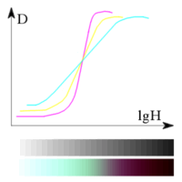 Characteristic curves for contrast-debalanced photomaterial. Sample result of greyscale shot.